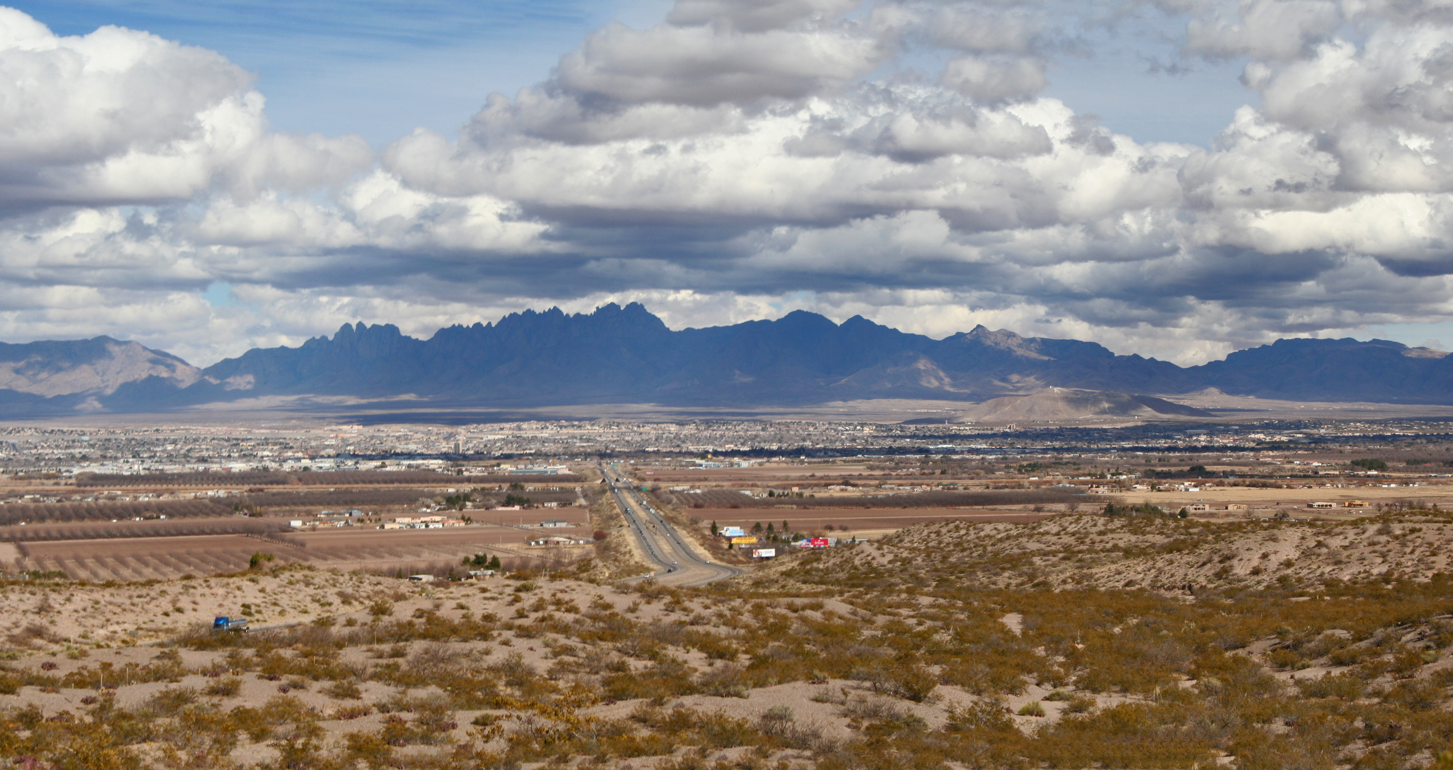 A scenic view of Las Cruses, New Mexico, United States. Taken from Scenic Overlook Circle off I-10. Organ Mountains in the background